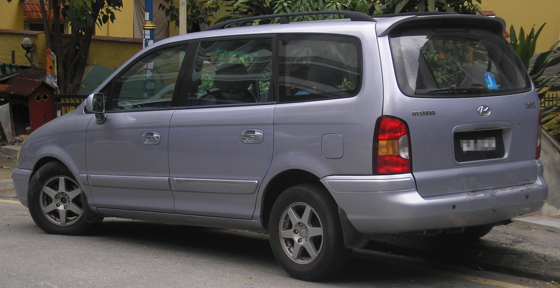 Rear quarter view of a first generation Hyundai Trajet, in Bukit Bintang, Kuala Lumpur, Malaysia.